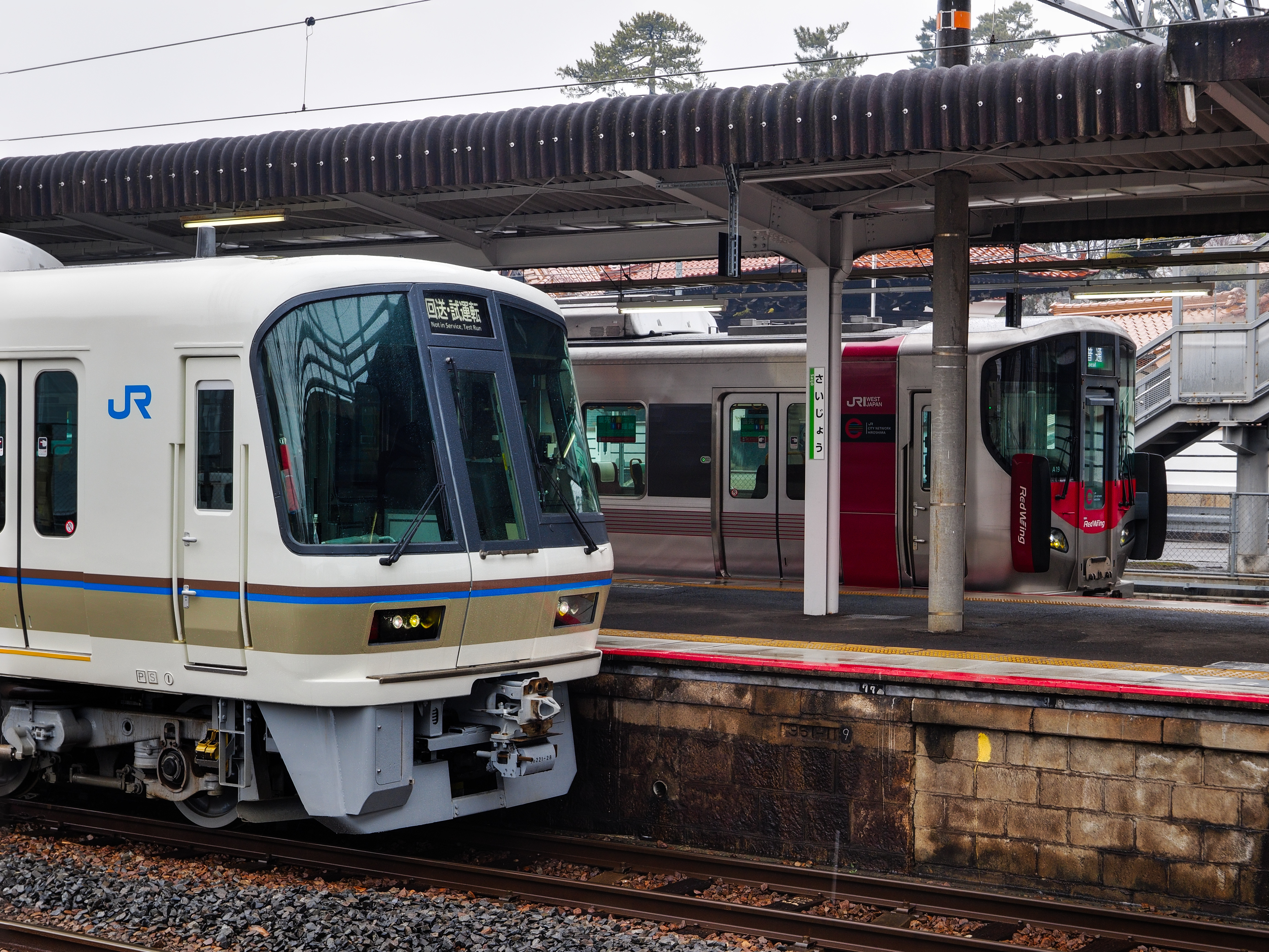 Set NC605 of JR West 221 EMU following renovation at Hatabu Rolling Stock Works, returning to Nara. Olympus E-M1